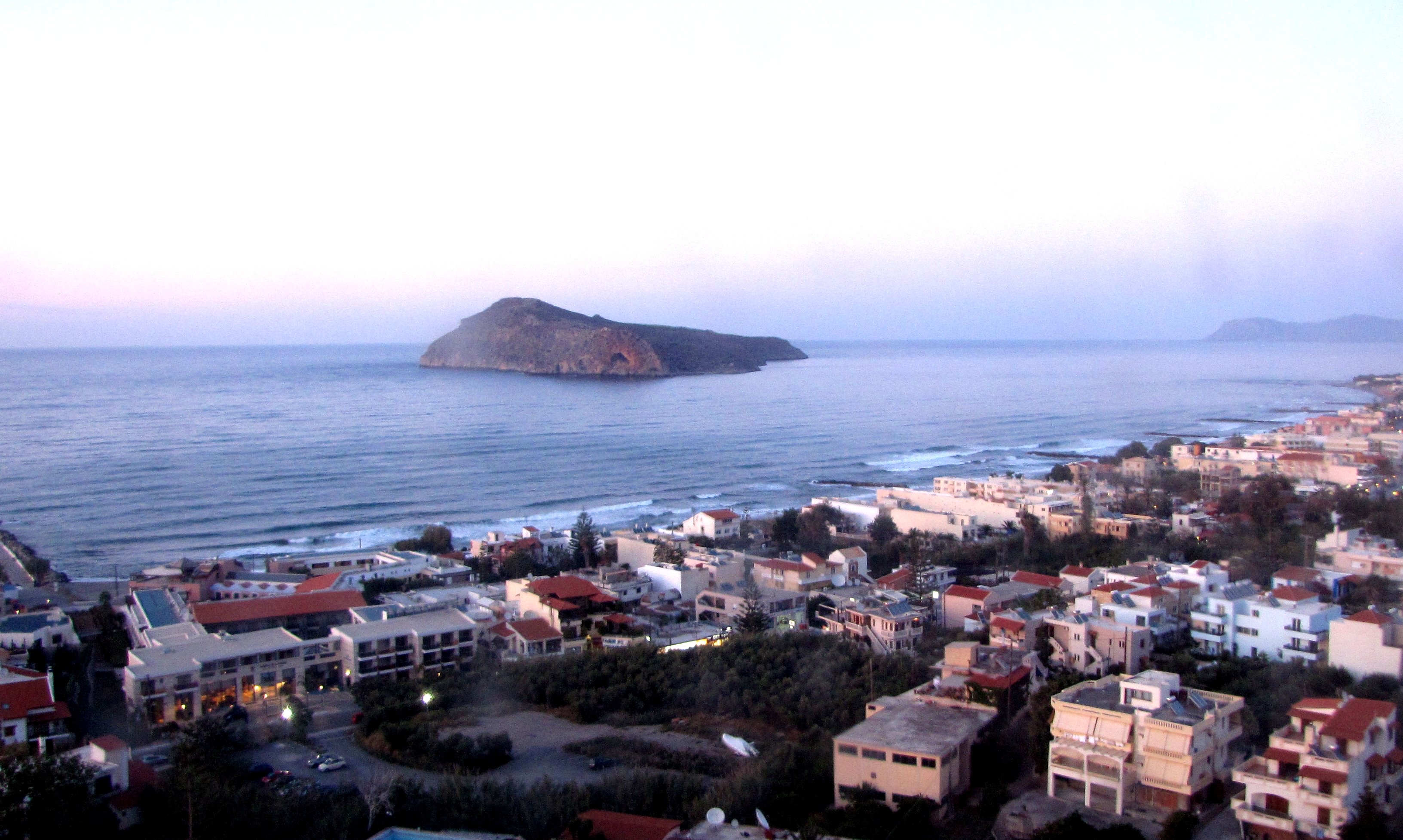 Theodorou Island/Agii Theodori Island, Chania Prefekture, Crete, Greece.